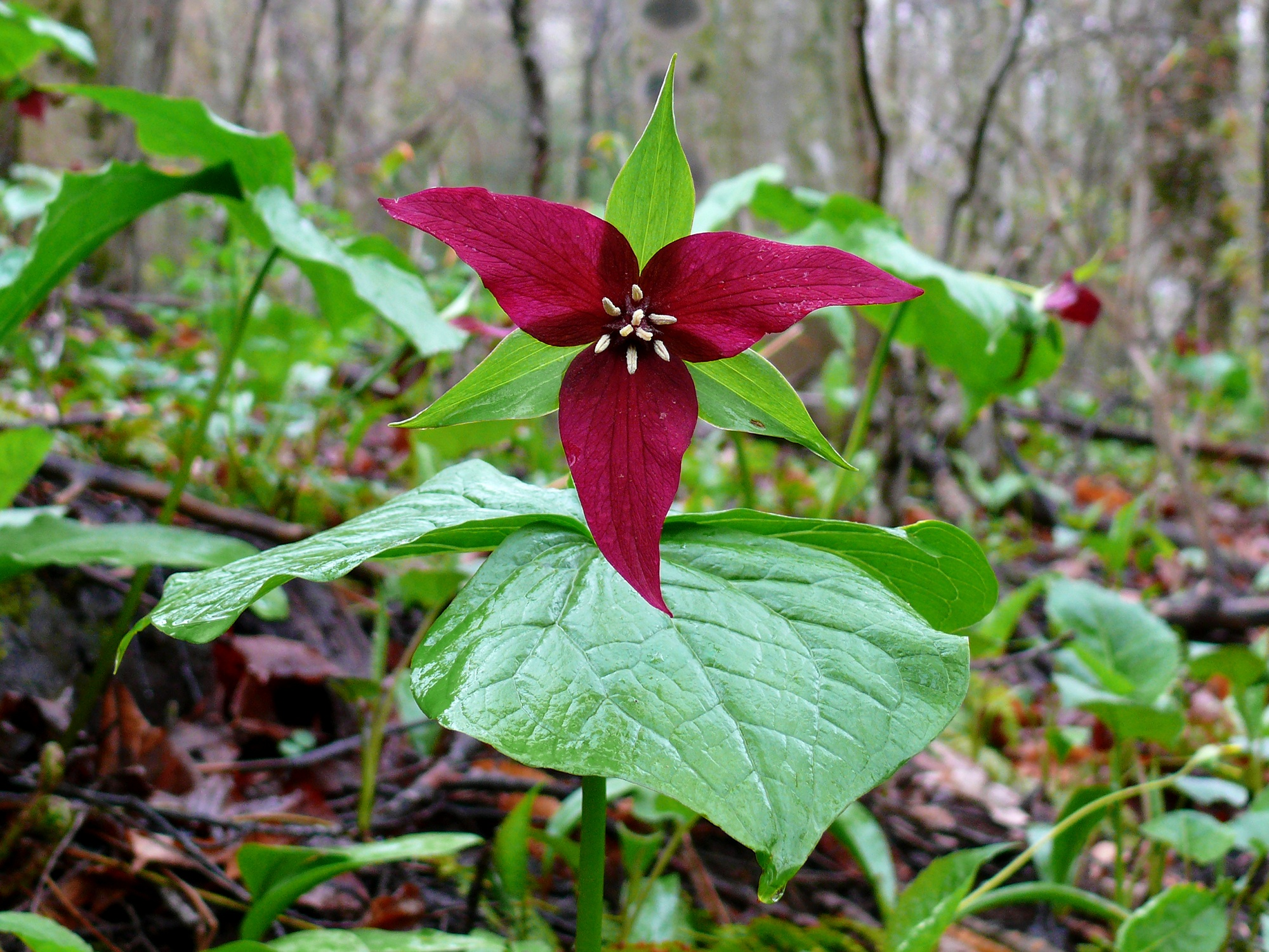 Wild Red Trillium (Trillium erectum) blooming on the banks of the Williams River in the Monongahela National Forest. Photo taken with a Panasonic Lumix DMC-FZ50 in Pocahontas County, WV, USA. Cropping and post-processing performed with The GIMP.